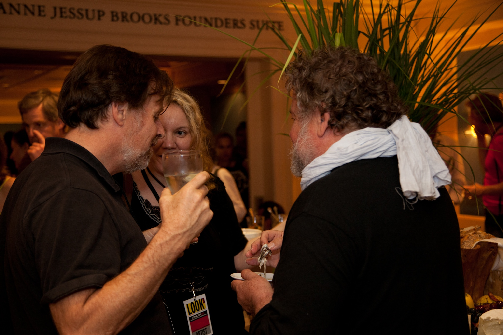 Alex Webb (left) and Antonin Kratochvil (right)